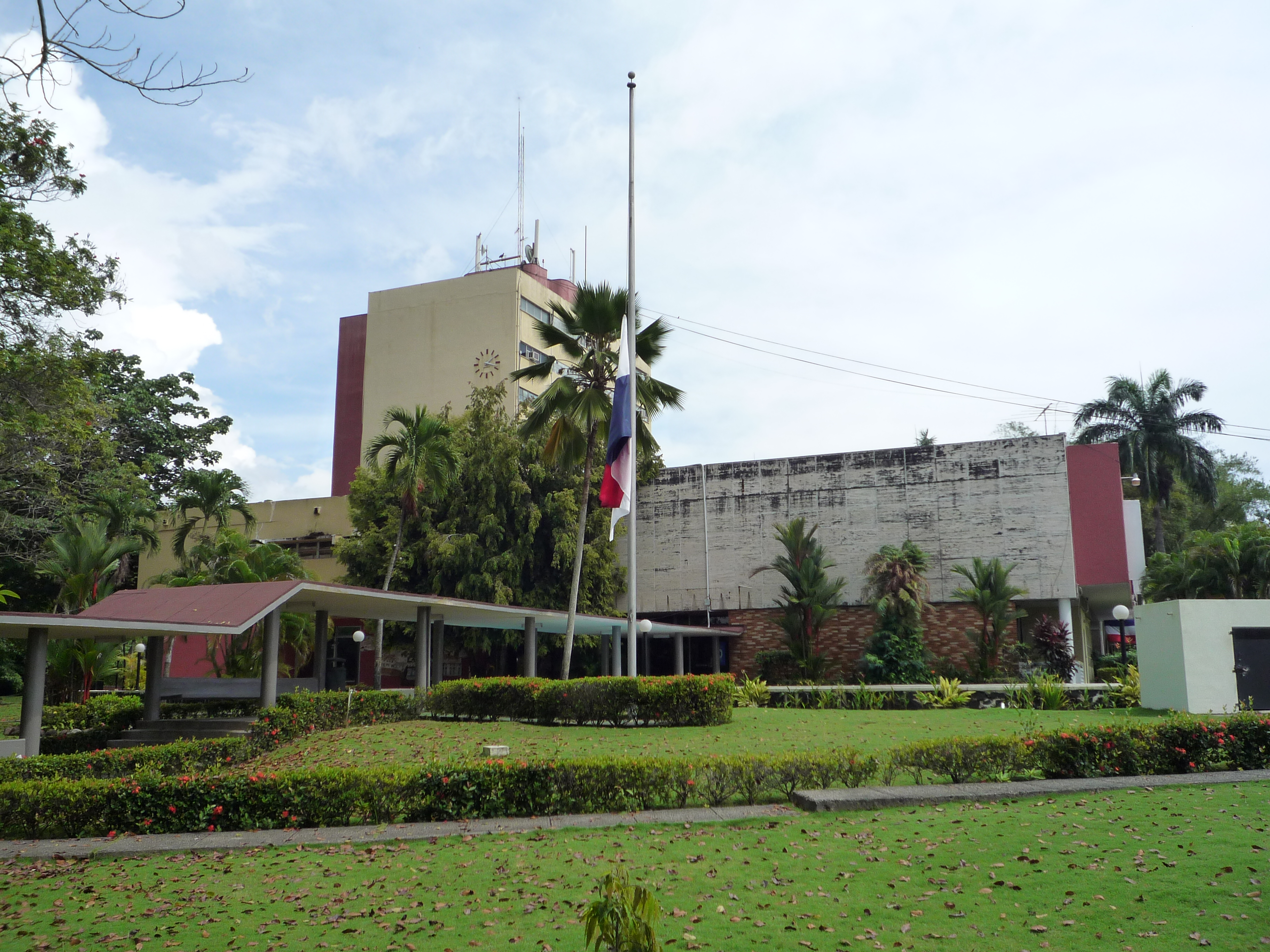 image of the administrative center from the University hilltops of Panama